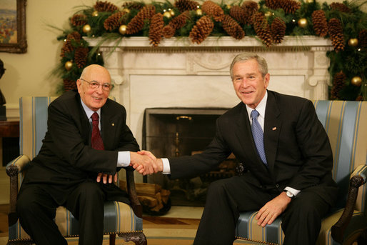 President George W. Bush and President Giorgio Napolitano exchange handshakes during the Italian leader's visit Tuesday, Dec. 11, 2007, to the White House. President Bush told his counterpart, "It's my honor to welcome you... Bilateral relations with the United States and Italy are very good. We have a lot of interchange between our countries, with business as well as travel."